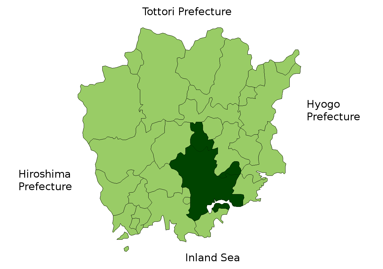 Map of Okayama Prefecture highlighting Okayama city. Borders of map as of July, 2006. (blank map used from [1]) See also Image:OkayamaMapCurrent.png.